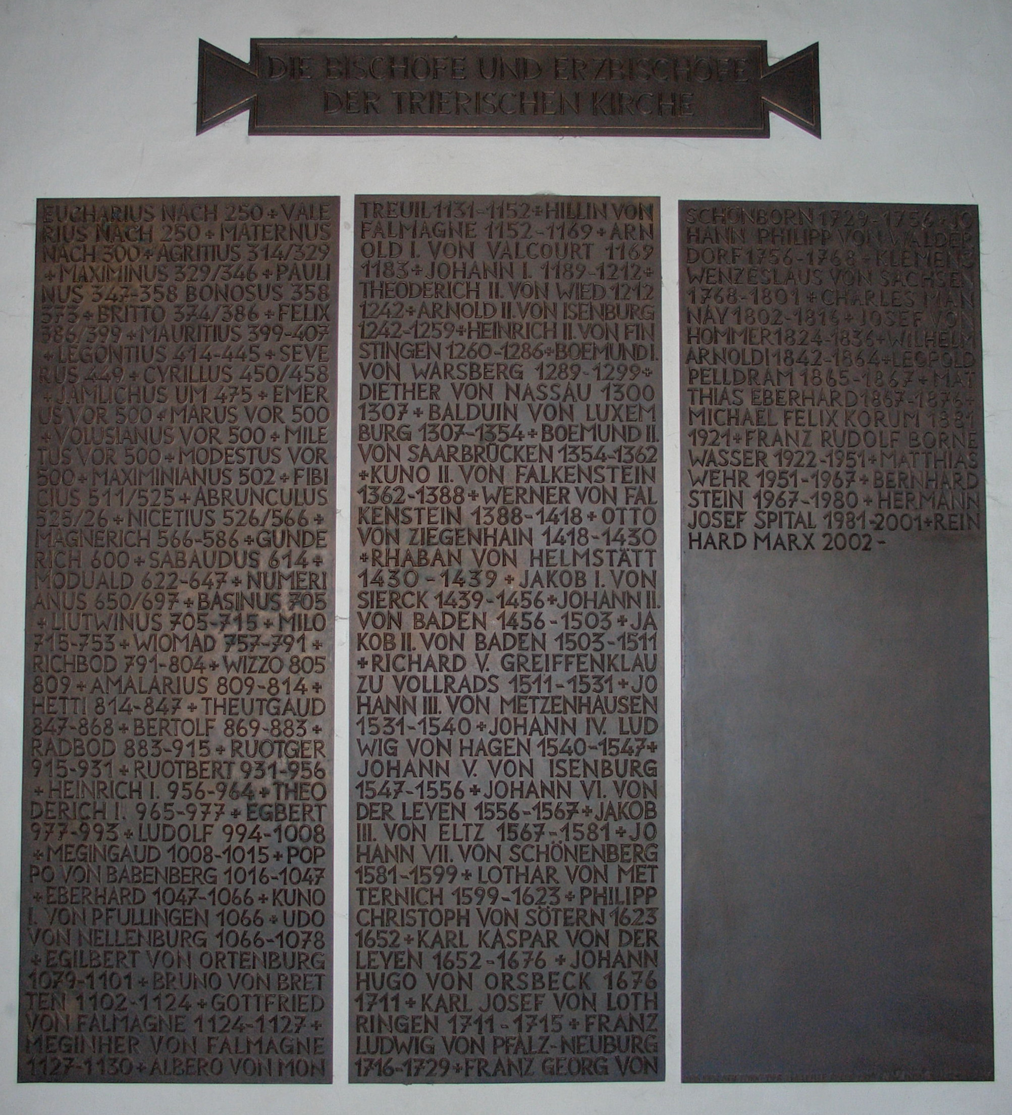 List of the Archbishops of Trier at the Cathedral of Trier